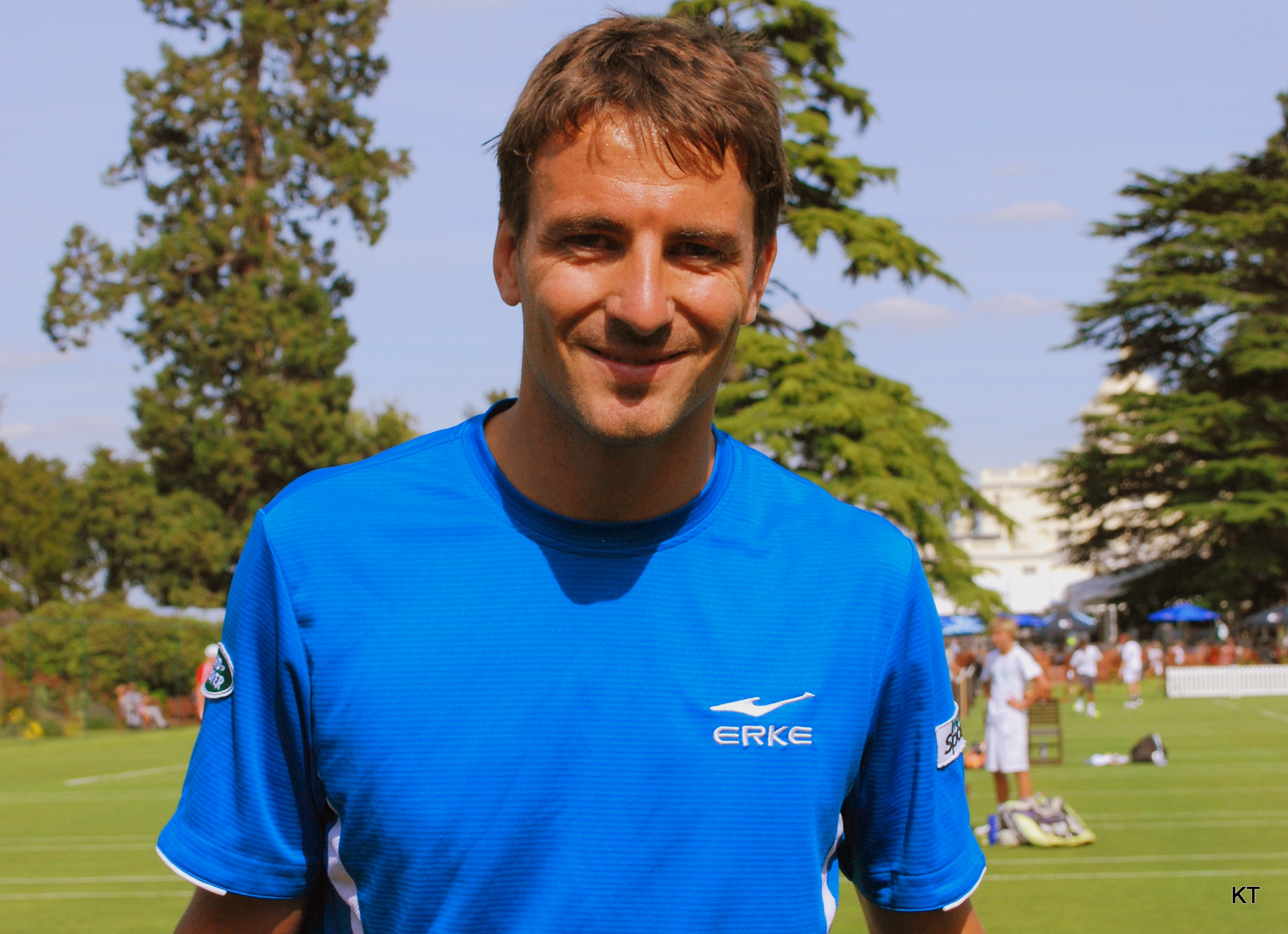 The Boodles, Stoke Park, 2011.